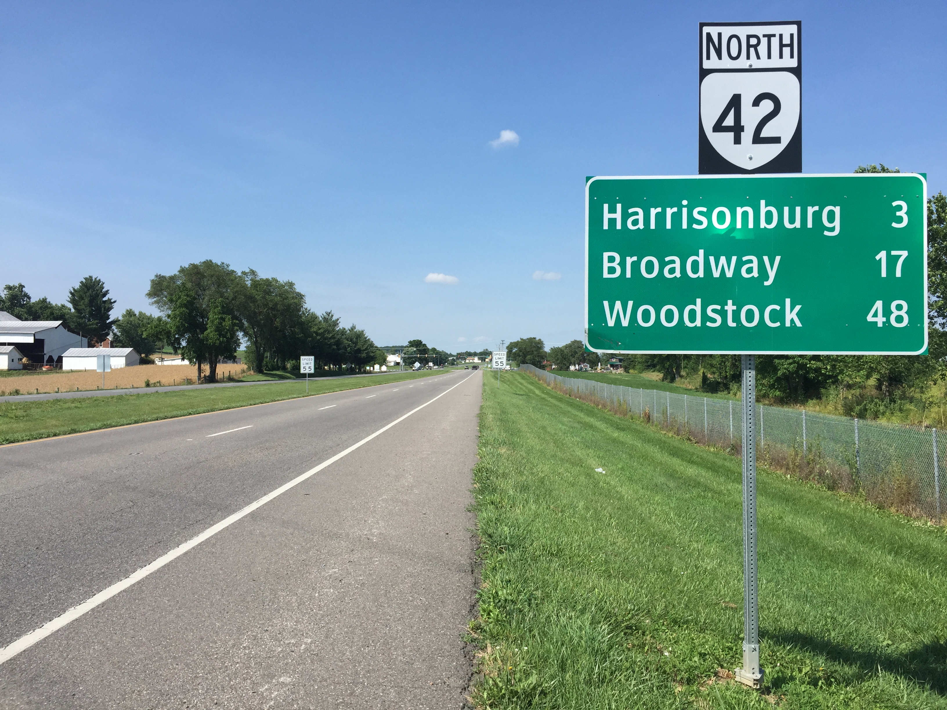 View north along Virginia State Route 42 (John Wayland Highway) just north of Virginia State Route 290 (Huffman Drive) in Dayton, Rockingham County, Virginia